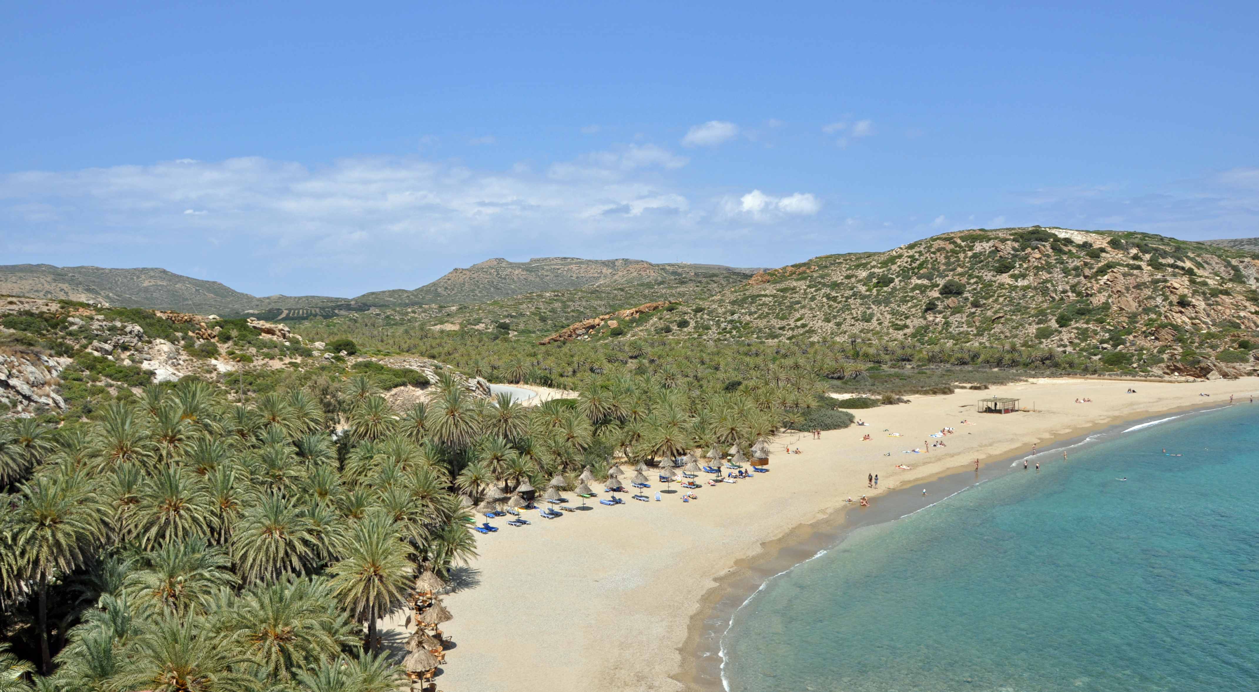 The palm beach of Vai (Crete, Greece)